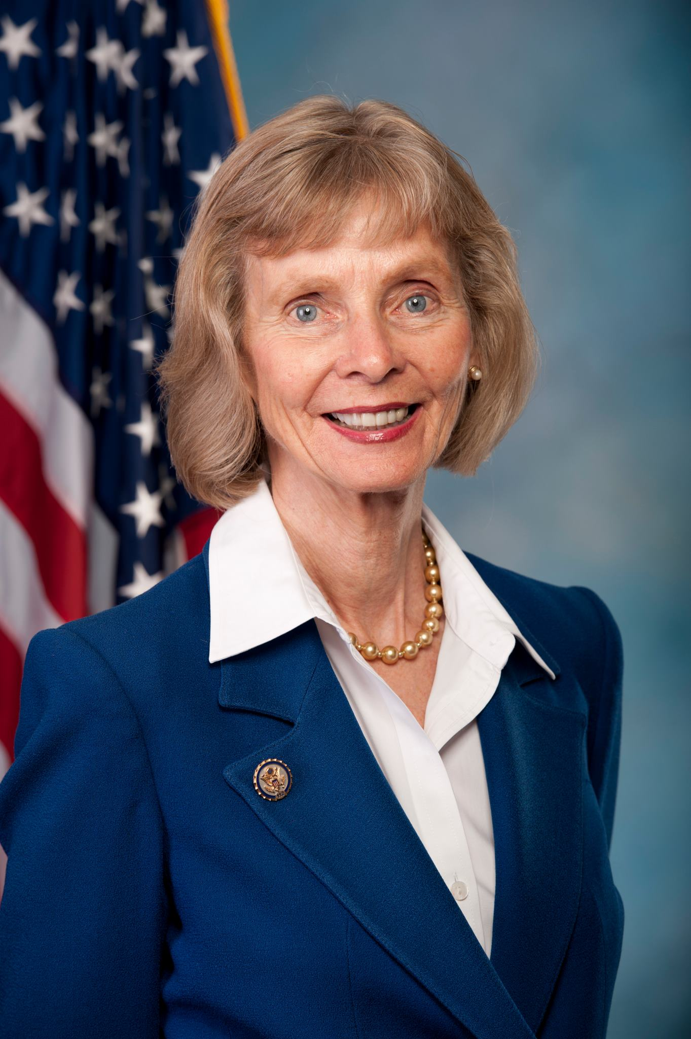 Lois Capps, member of the United States Congress.